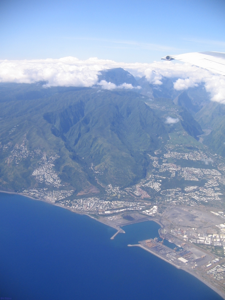 Reunion Island from above: view over La Possession and Le Port (La Pointe des Galets)